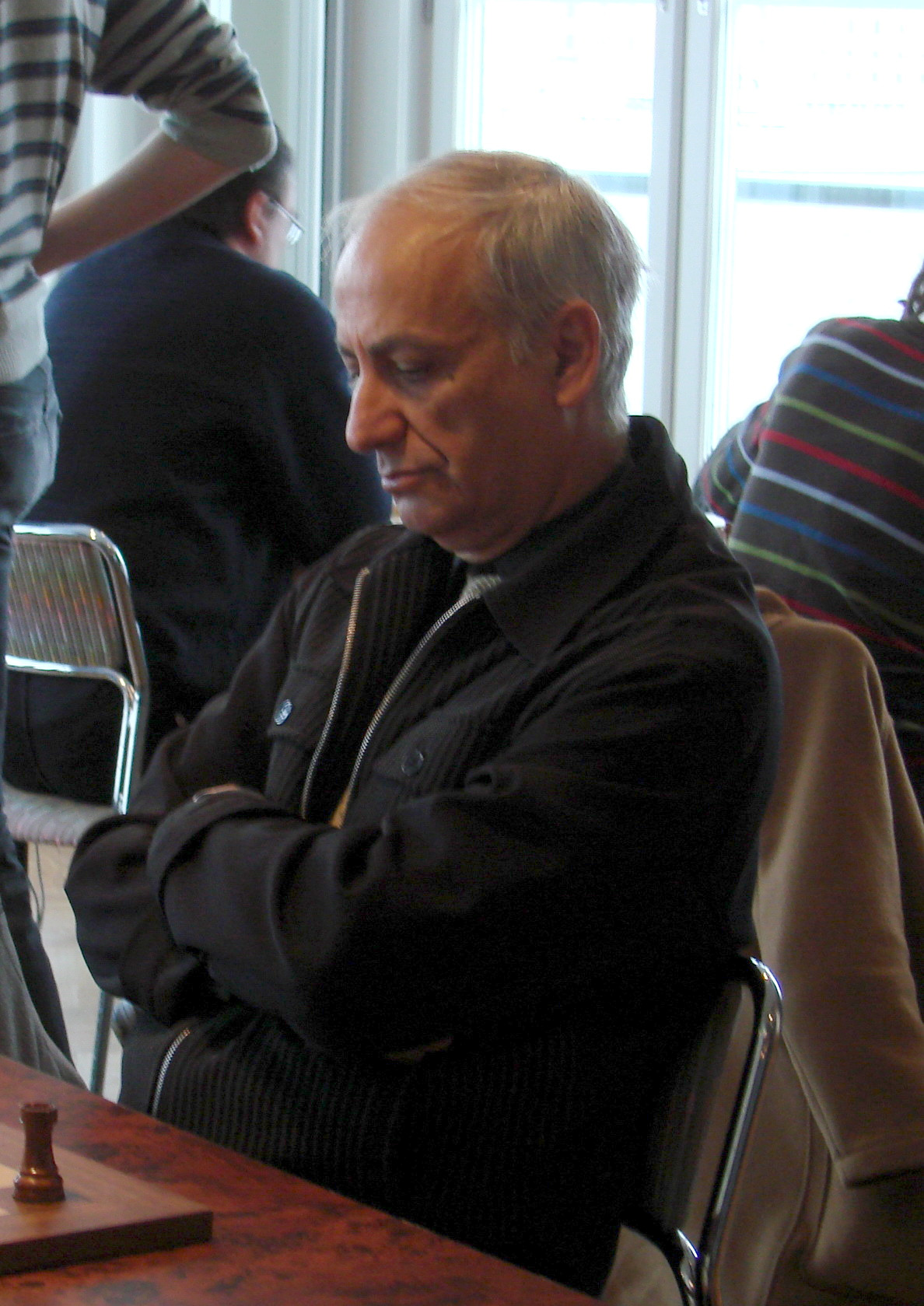 GM Juan Manuel Bellon Lopez (Spain), Rilton Cup Stockholm 2009/10